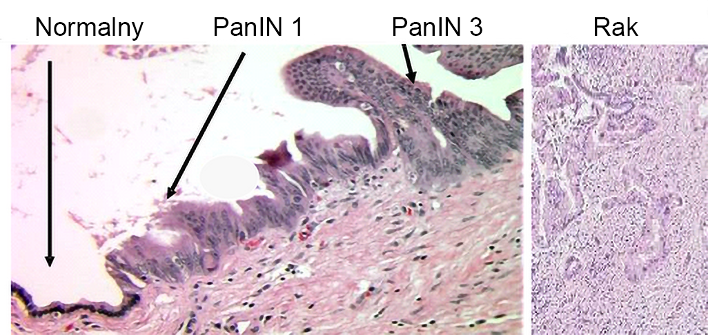 Palladin Expression in Primary Cultures of Pancreatic Ductal Cells Derived from Increasingly Neoplastic Samples. Expression of Palladin RNA increases relative to the degree of precancer to cancer: normal to PanIN 1 (hyperplasia) to PanIN 3 (carcinoma in situ) to cancer. Each bar represents epithelial cell cultures from one person. The PanIN 1 and PanIN 3 lesions (lower left photomicrograph) were purified from two affected members of Family X. The pancreatic cancer epithelial cells (lower right photomicrograph) were purified from a sample of sporadic adenocarcinoma.